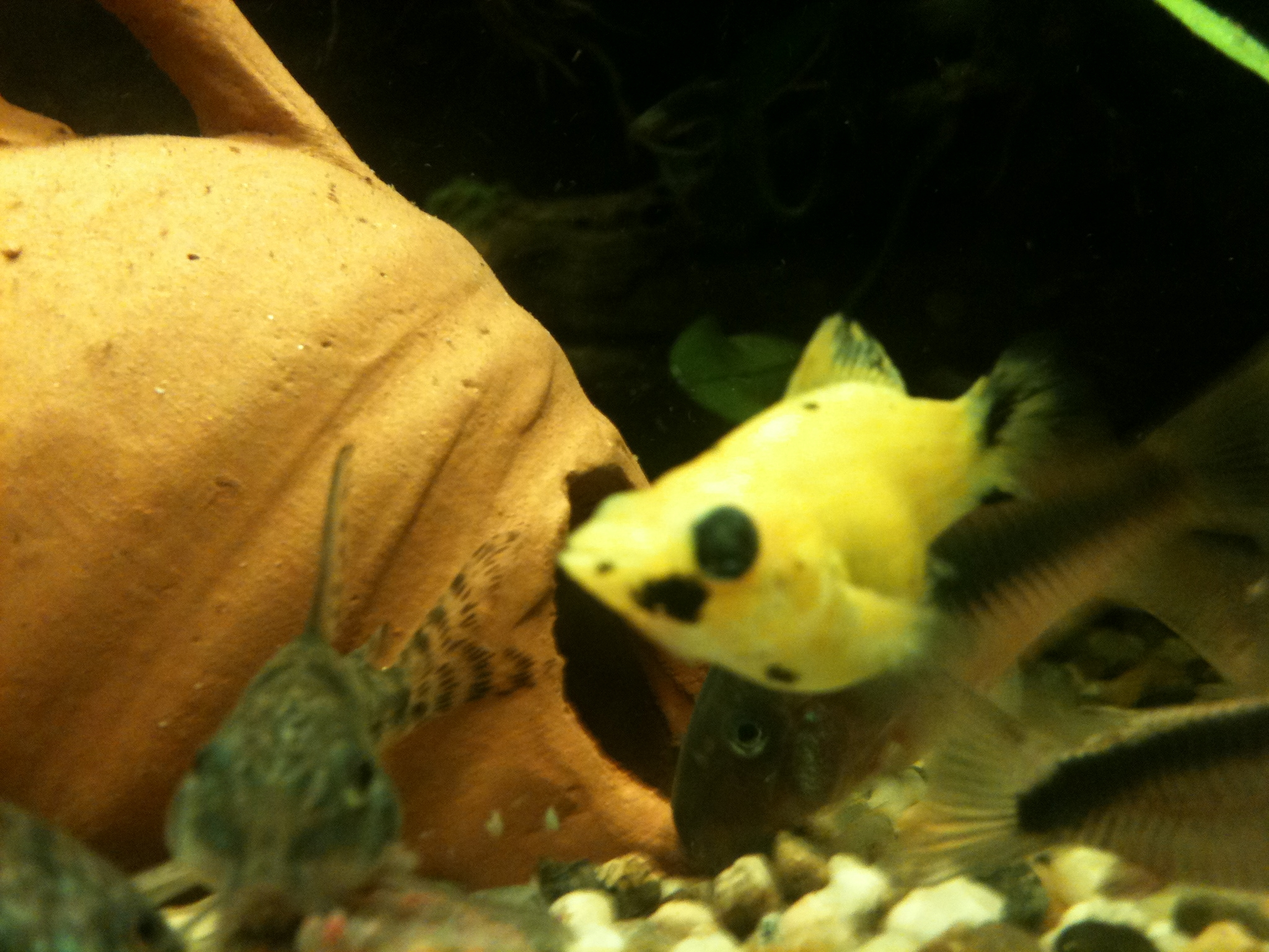 Molly Baloon